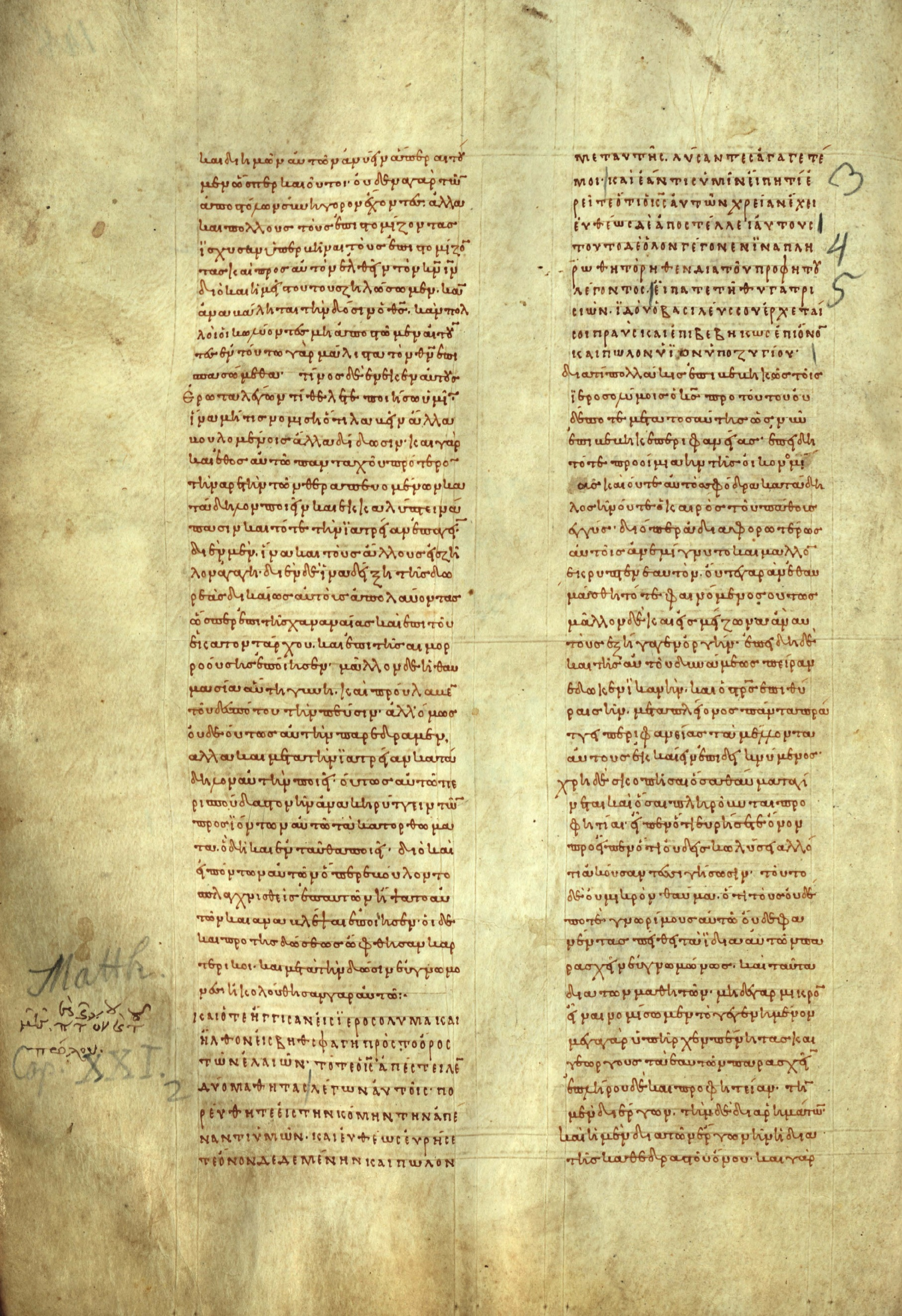 Folio 148 verso with fragment of Matthew 21 (with a commentary)